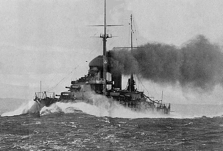 French battleship Paris, trial at full steam